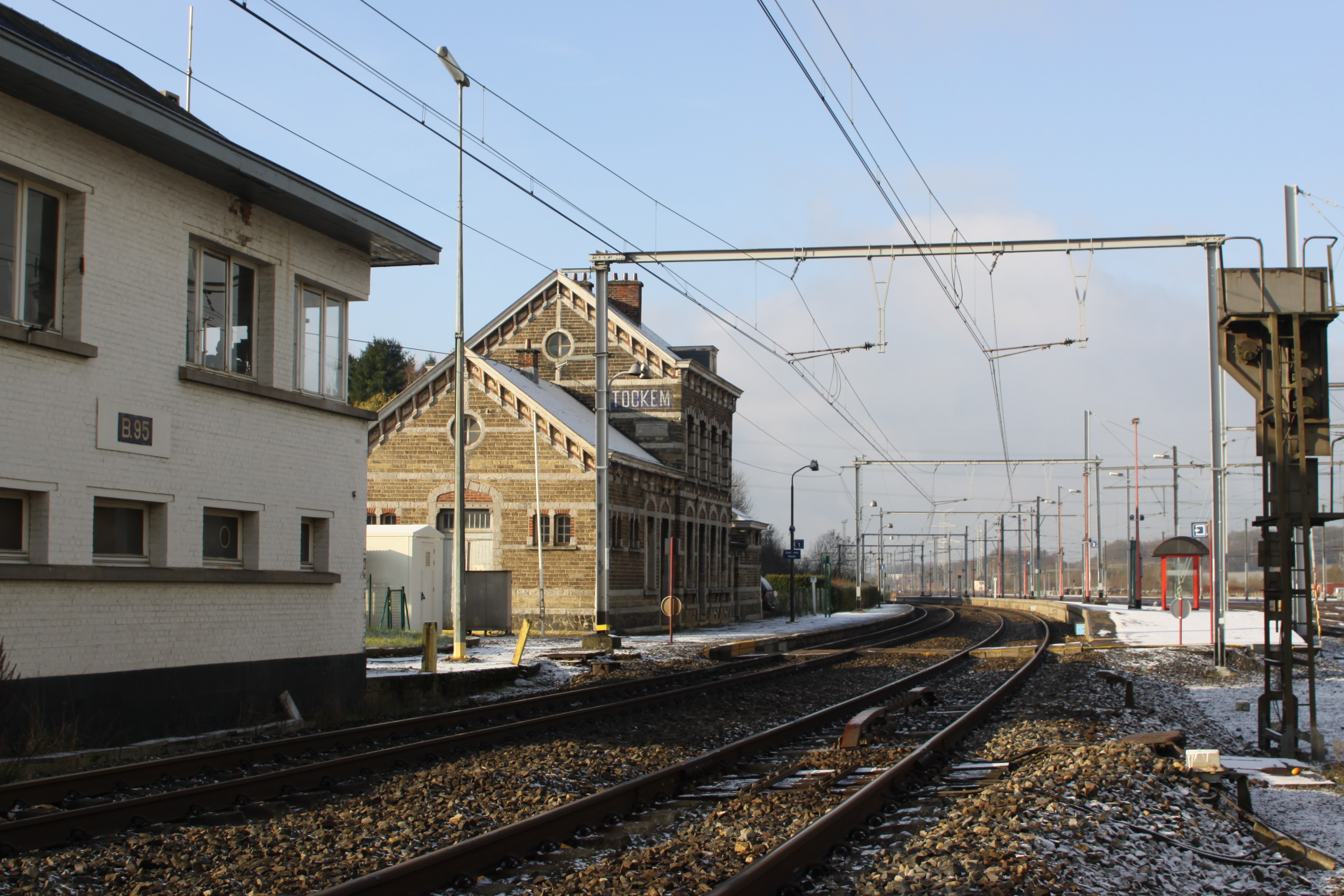 Train station Stockem seen from direction Arlon